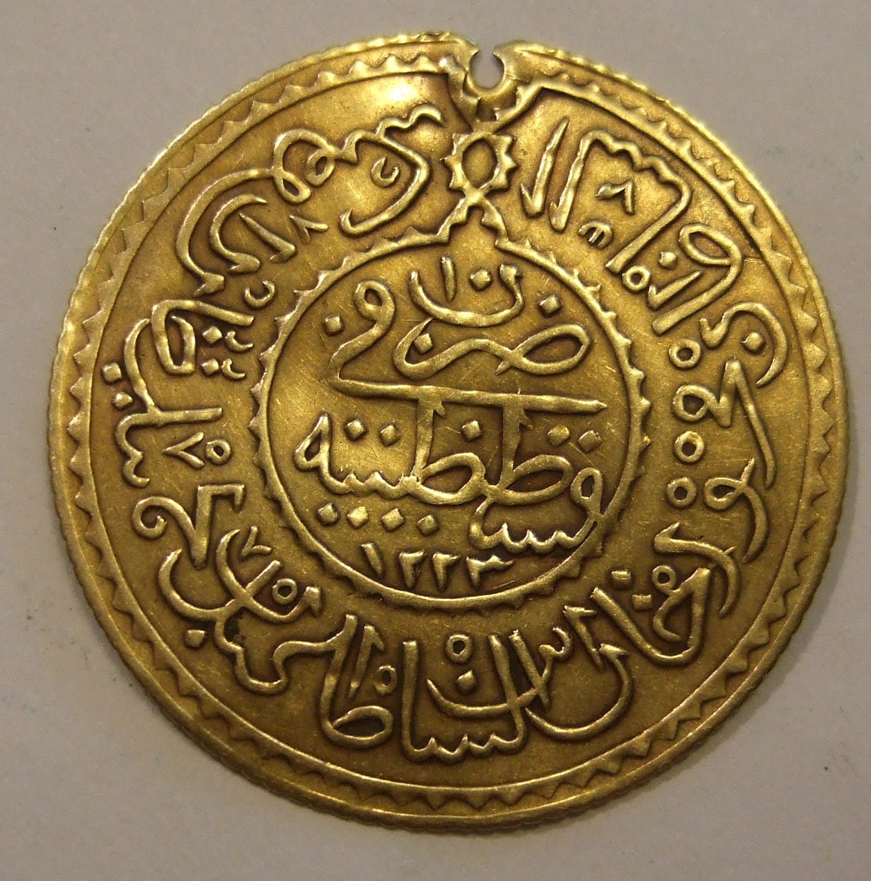 Gold coin from the reign of Sultan Mahmud II 1818. Coin is the size of an American 50 cent piece but much thinner.